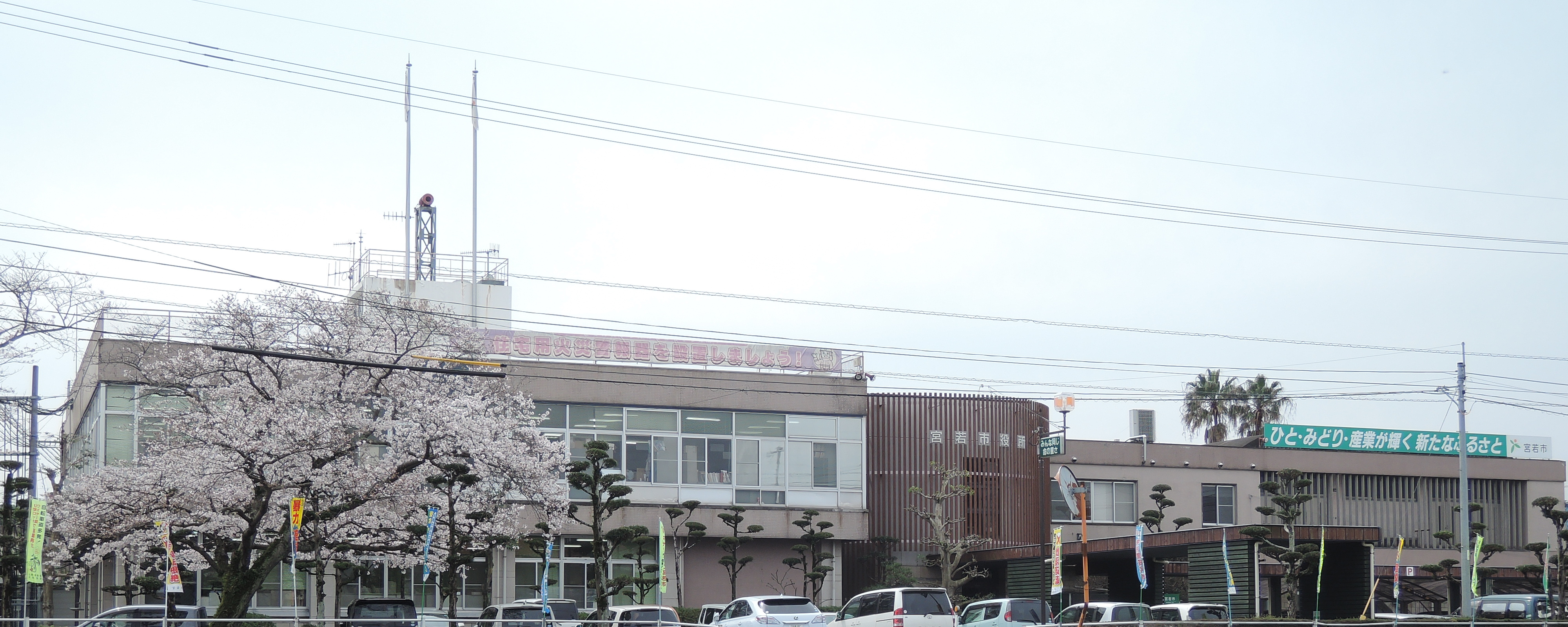 Miyawaka city hall,Fukuoka prefecture,Japan